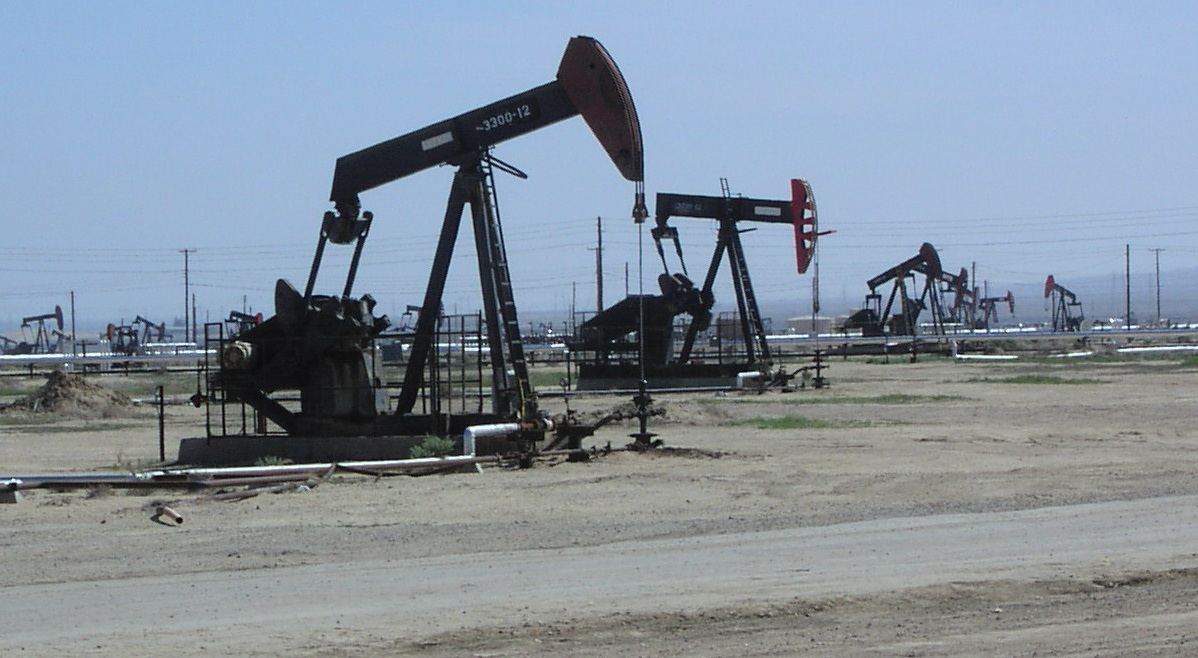 A row of nodding donkeys at South Belridge Oil Field, March 8, 2008, by User:Antandrus; GFDL